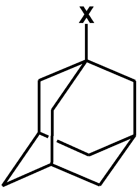 1-haloadamantane